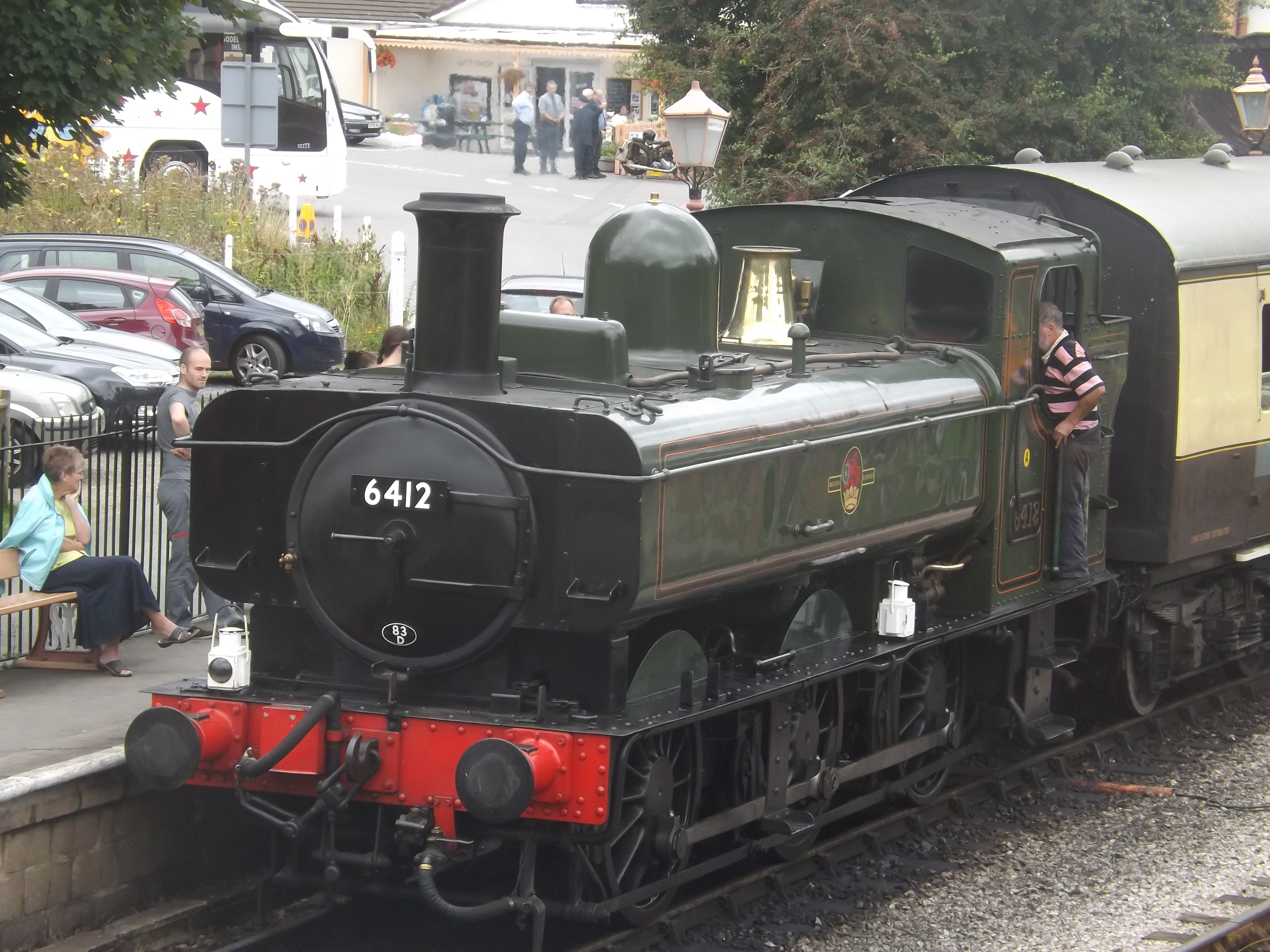 Photo 11 September 2015. South Devon Railway. Totnes Buckfastleigh Station.